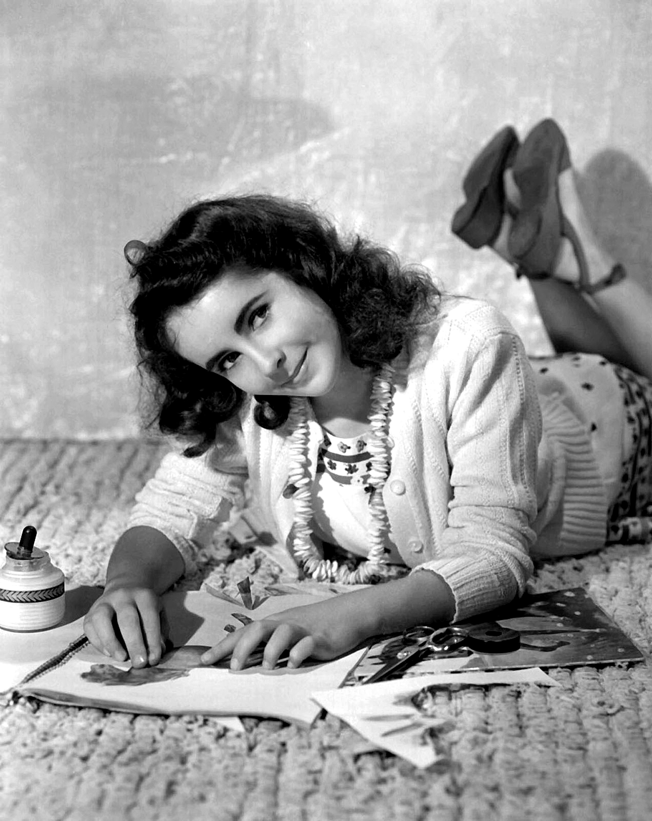 Studio publicity photo of Elizabeth Taylor as child actress Additional source information: This is a publicity photo taken to promote a film actor. As stated by film production expert Eve Light Honthaner inThe Complete Film Production Handbook, (Focal Press, 2001 p. 211.): "Publicity photos (star headshots) have traditionally not been copyrighted. Since they are disseminated to the public, they are generally considered public domain, and therefore clearance by the studio that produced them is not necessary." Nancy Wolff, includes a similar explanation: "There is a vast body of photographs, including but not limited to publicity stills, that have no notice as to who may have created them." (The Professional Photographer's Legal Handbook By Nancy E. Wolff, Allworth Communications, 2007, p. 55.) Film industry author Gerald Mast, in Film Study and the Copyright Law (1989) p. 87, writes: "According to the old copyright act, such production stills were not automatically copyrighted as part of the film and required separate copyrights as photographic stills. The new copyright act similarly excludes the production still from automatic copyright but gives the film's copyright owner a five-year period in which to copyright the stills. Most studios have never bothered to copyright these stills because they were happy to see them pass into the public domain, to be used by as many people in as many publications as possible." Kristin Thompson, committee chairperson of the Society for Cinema and Media Studies writes in the conclusion of a 1993 conference with cinema scholars and editors, that they "expressed the opinion that it is not necessary for authors to request permission to reproduce frame enlargements. . . [and] some trade presses that publish educational and scholarly film books also take the position that permission is not necessary for reproducing frame enlargements and publicity photographs."[1]